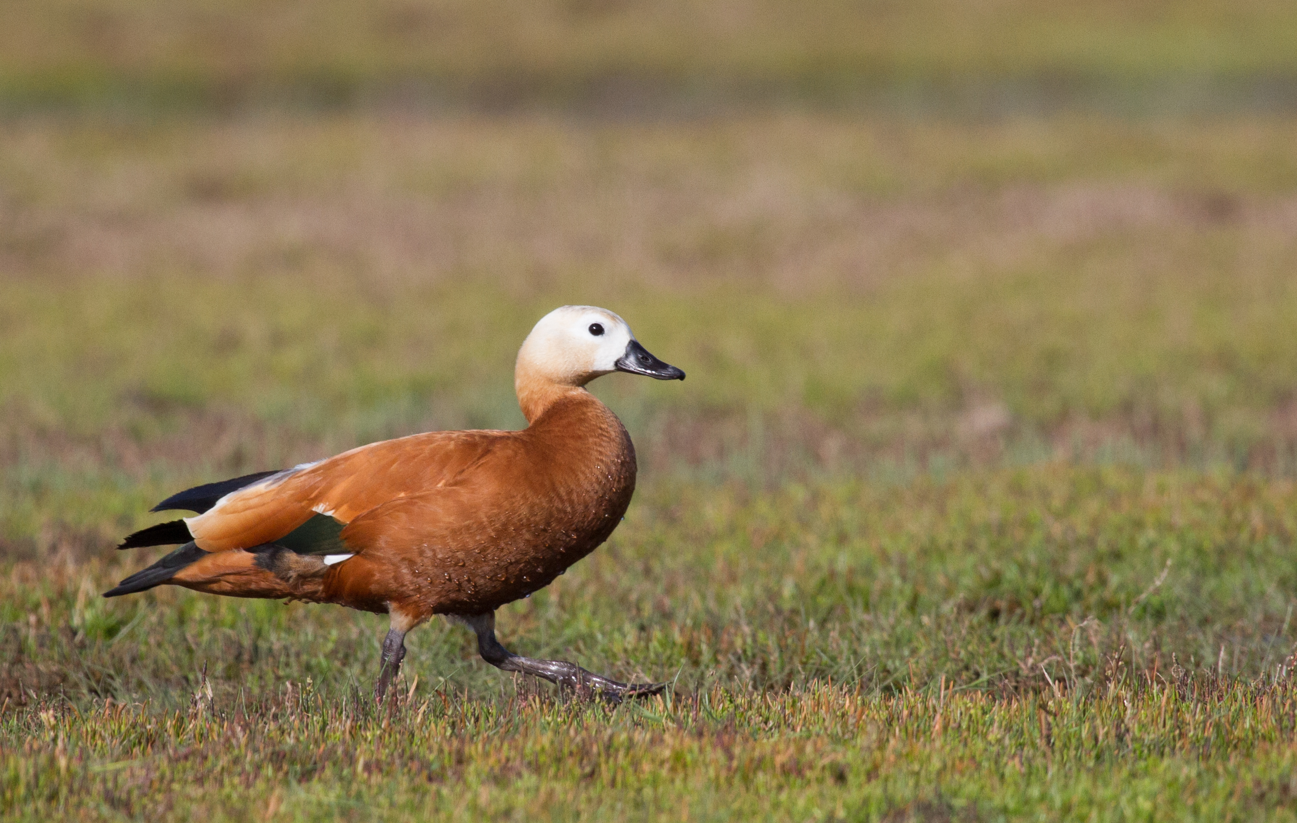 This is a photography of Natura 2000 protected area with ID GR4110004